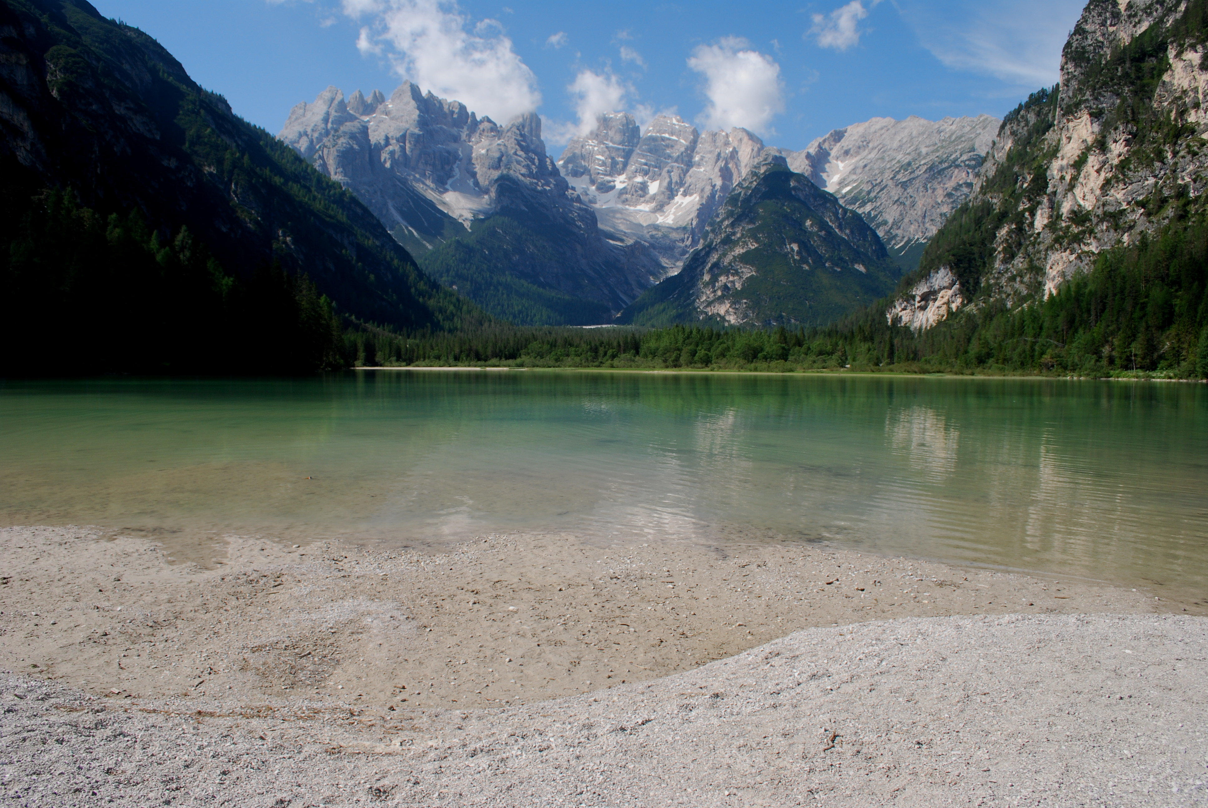 Lago di Landro / Dürrensee Südtirol-Italy